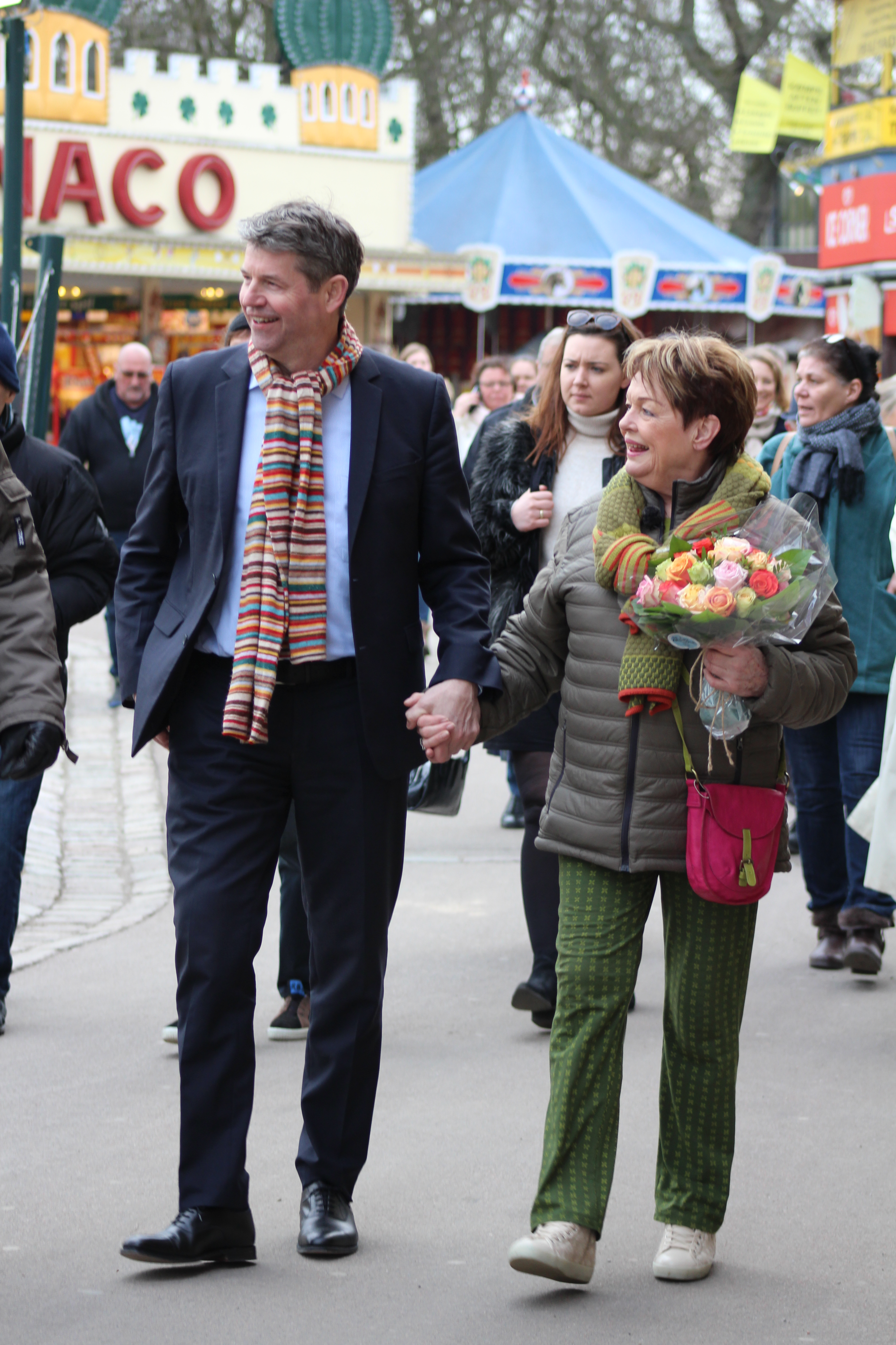 Nils-Erik Winther, director of the amusement park Bakken north of Copenhagen, with the actress Ghita Nørby at the opening of the season.